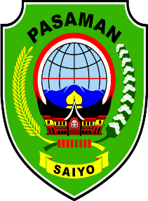 Lambang (Coat of Arms) of Kabupaten (Regency) Pasaman, Provinsi Sumatera Barat (West Sumatra Province), Indonesia